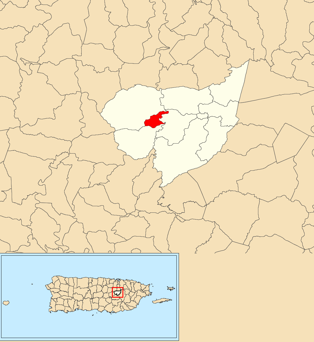 Mulita, Aguas Buenas, Puerto Rico locator map